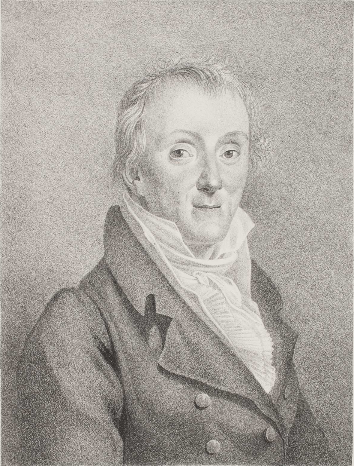 Depicted person: Friedrich Carl Lang